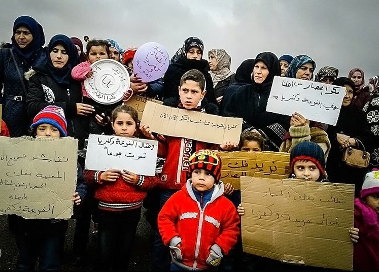 People and Children of Two Syrian Shiite towns, Al-Fu'ah and Kafriya attempted to set up a campaign entitled "We want bread O God" because of Starvation and famine Arising from blockades of food by Takfiri terrorists Over 2 years.